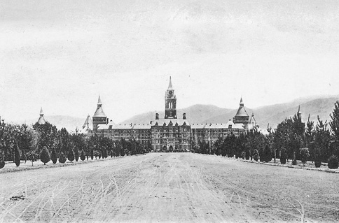 Napa State Hospital original building, demolished 1949